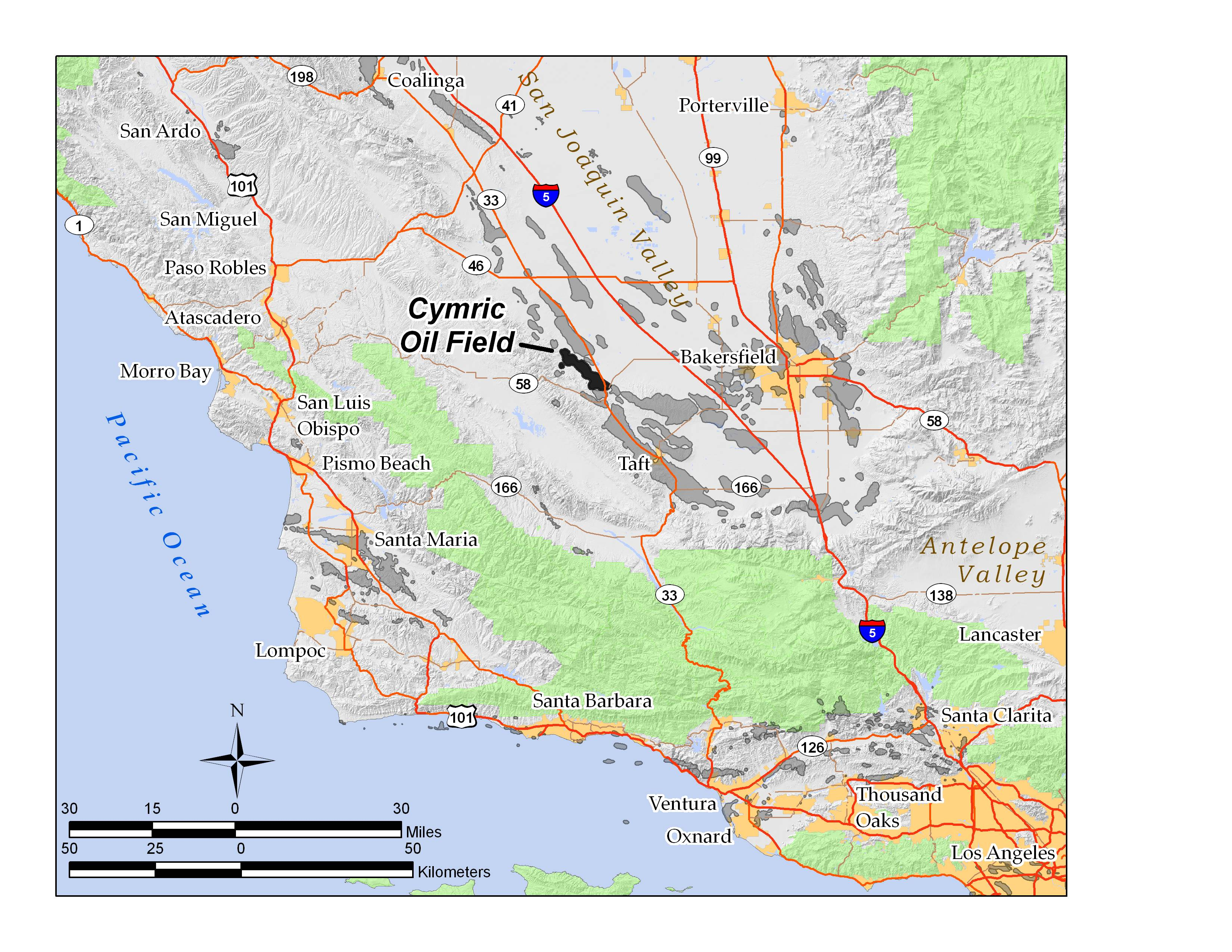 Map of central California showing the location of Cymric oil field in relation to other oil fields, and principal geographic features